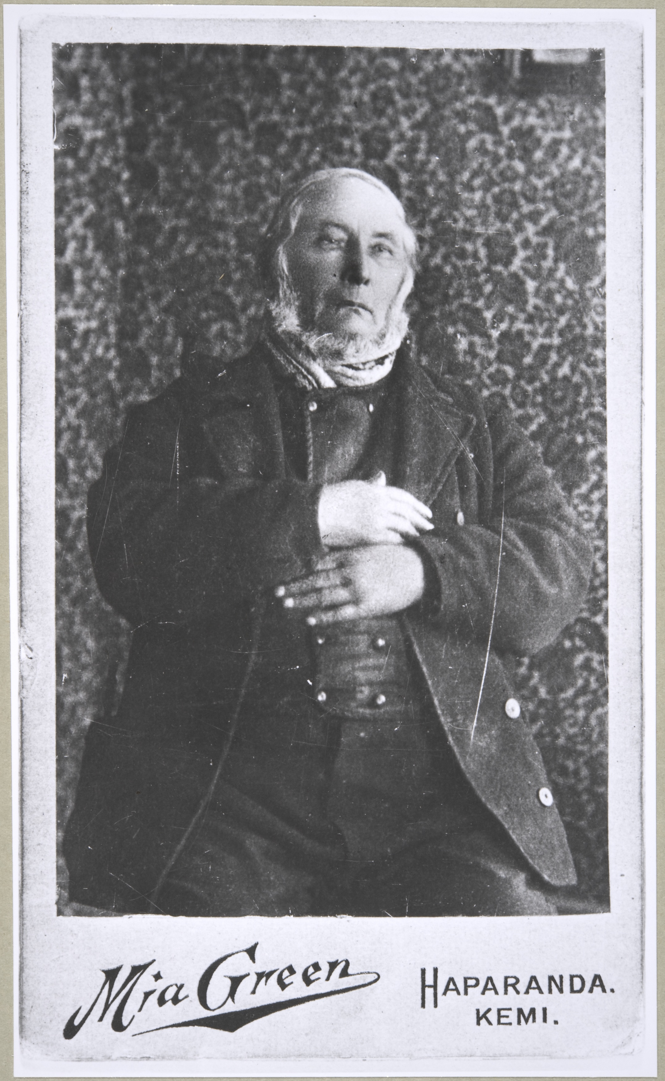 The Laestadian preacher Johan (Juhani) Raattamaa (1811-1899)